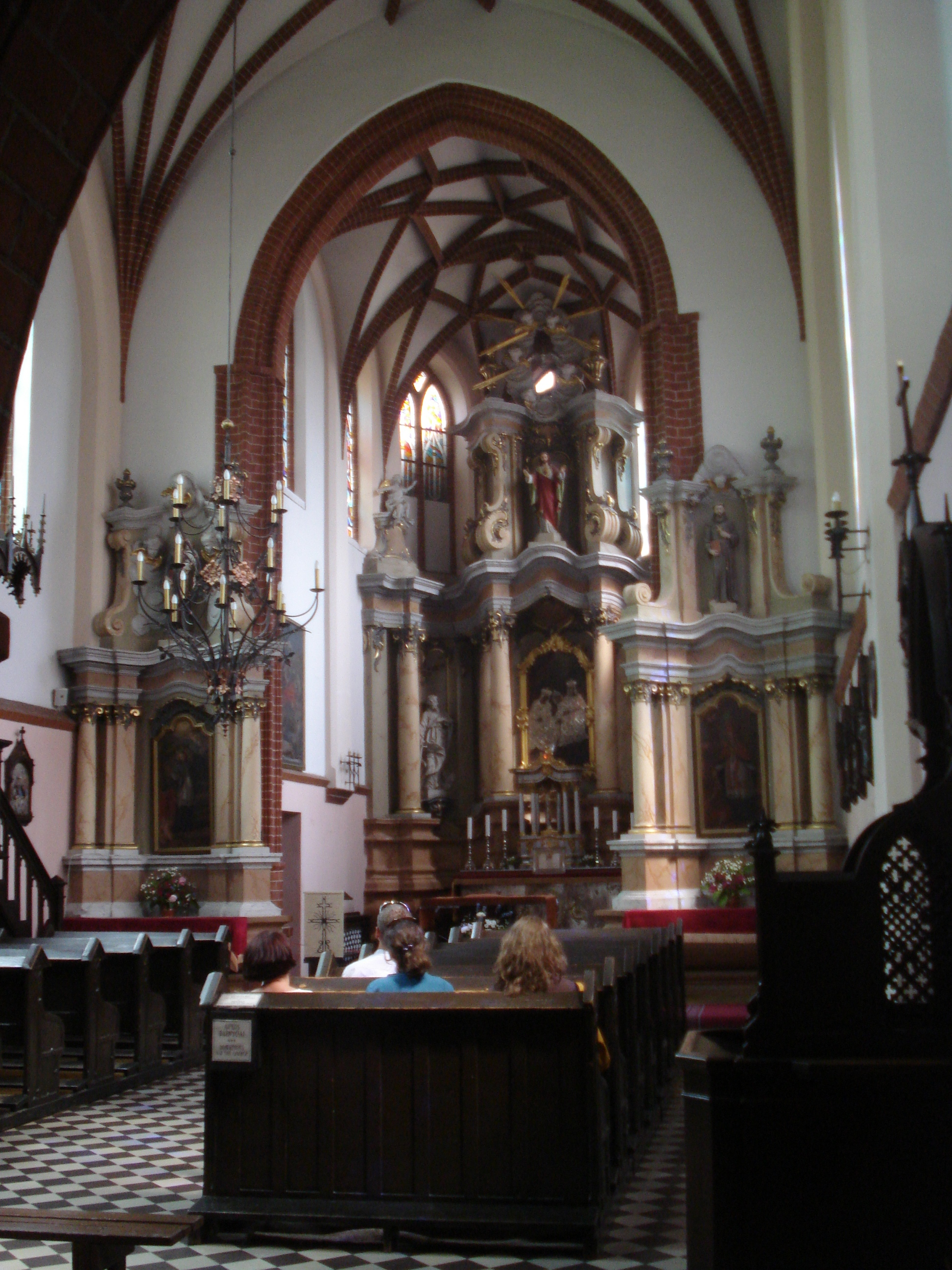 The Church of St. Anne in Vilnius. Interior